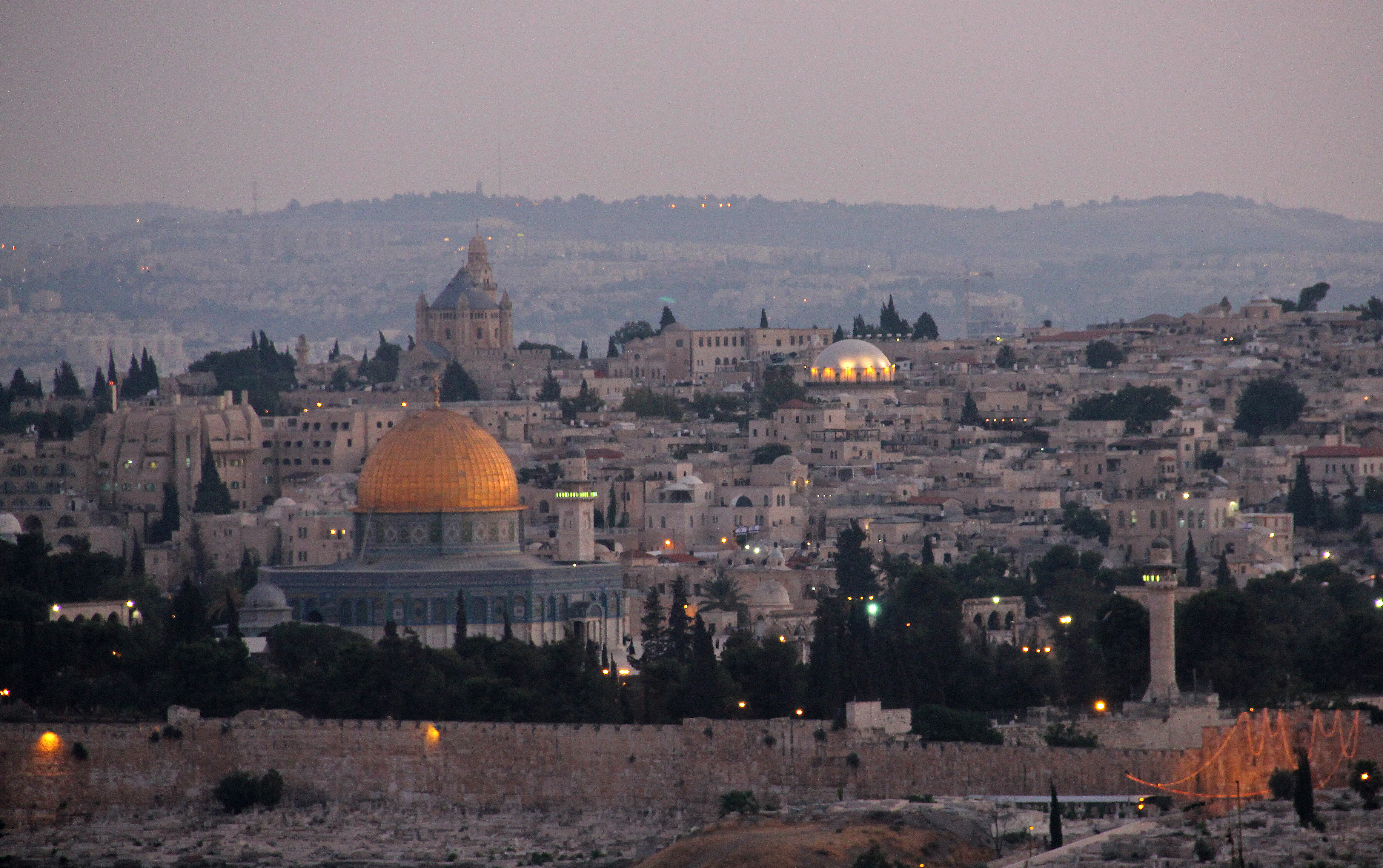 Jerusalem - old city, 3 religions : dome of the rock, dome of the Hurva and Dormition church. Geography of Israel